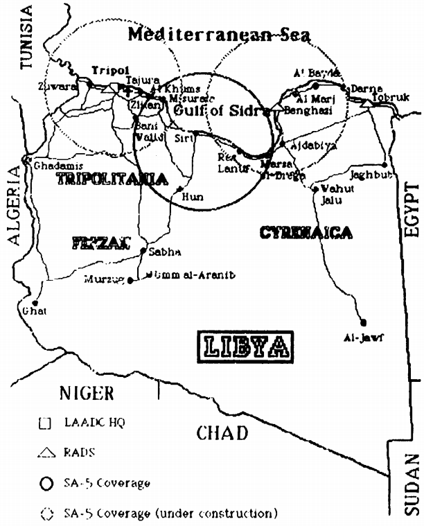 Air Defense Map of Libya, 1989.